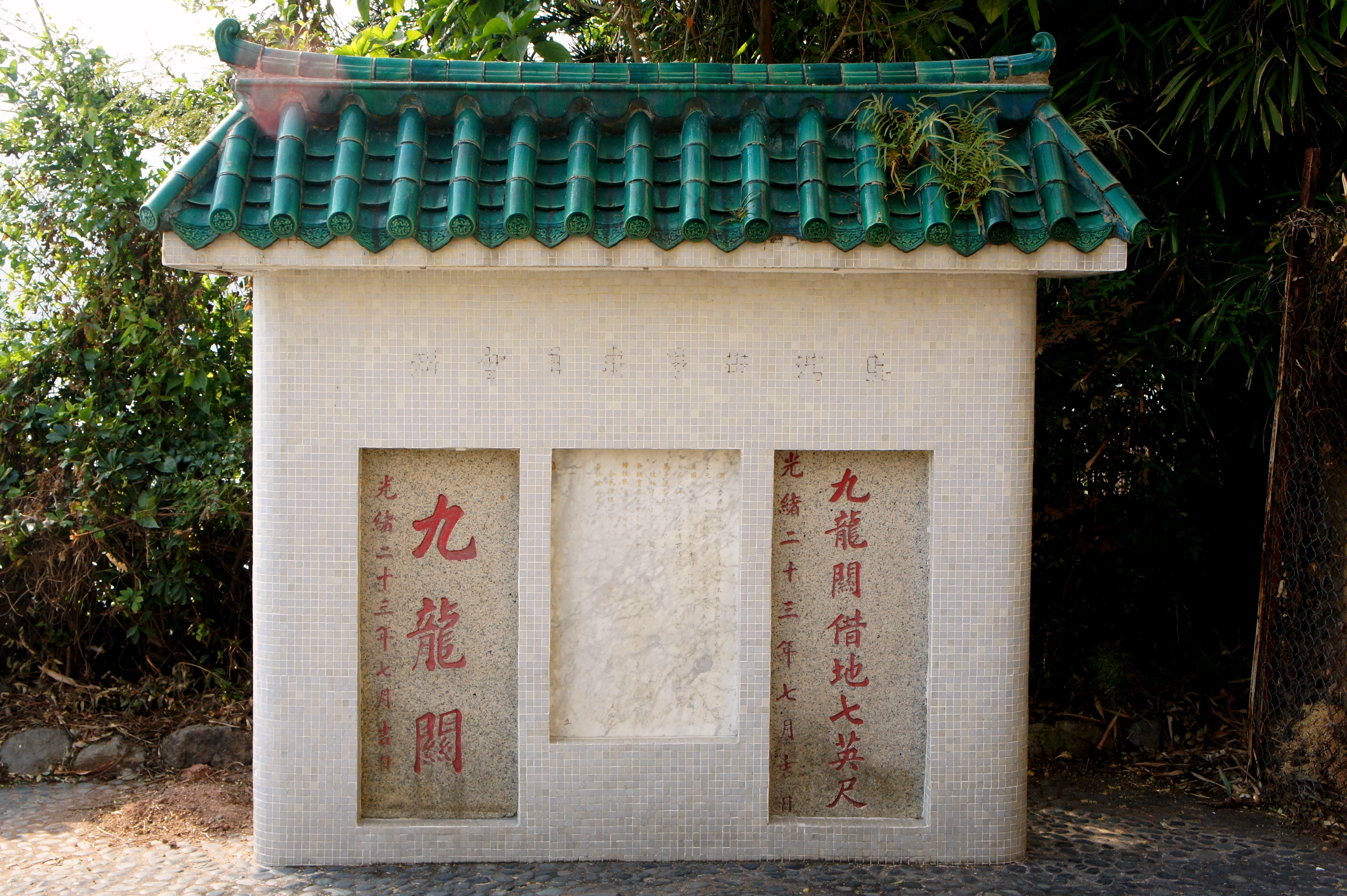 The Kowloon Customs Commemorative Tablets located in Ma Wan, New Territories, Hong Kong. The stone on left has an inscription on it saying “The Kowloon Customs”. The one on the right has an inscription saying “The Kowloon Customs have borrowed seven feet of Land”.